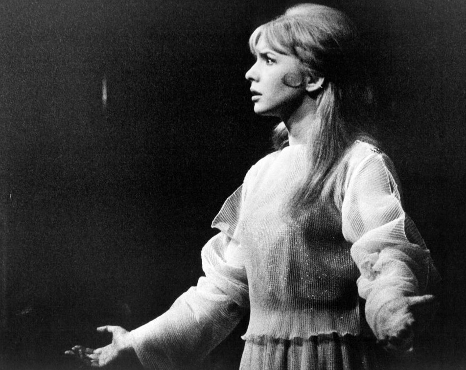 Photo of Jane Asher as Juliet from "Romeo and Juliet". Asher joined the Bristol Old Vic; the company made a United States tour in 1967.